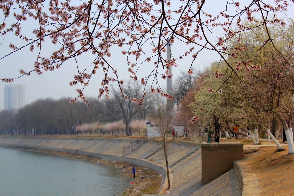 landscape in peach blossoms dike